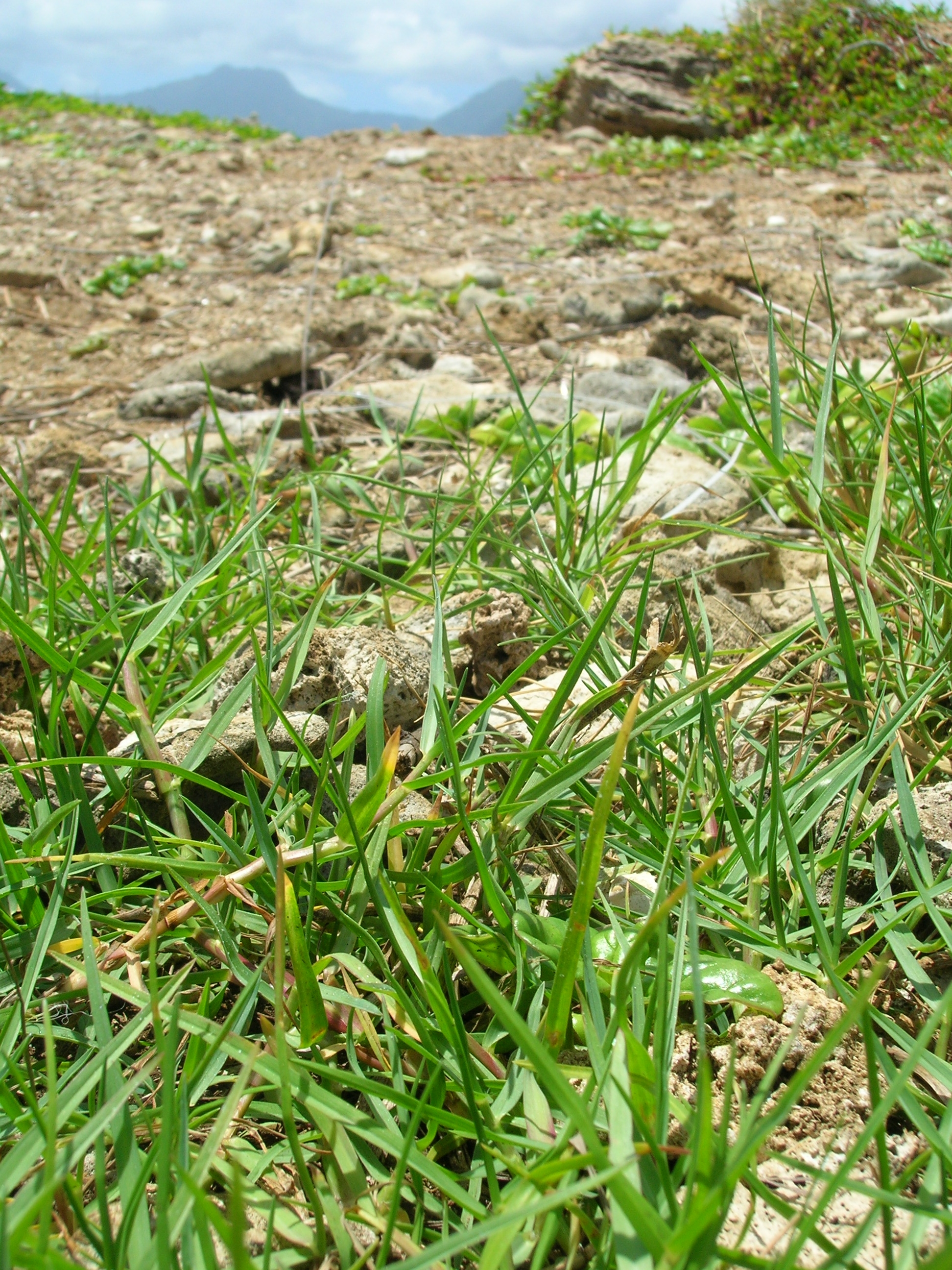 Paspalum vaginatum (habit). Location: Oahu, Kapapa